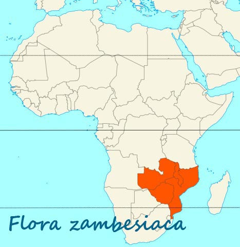 Аҧсшәа: Area covered by Flora zambesiaca